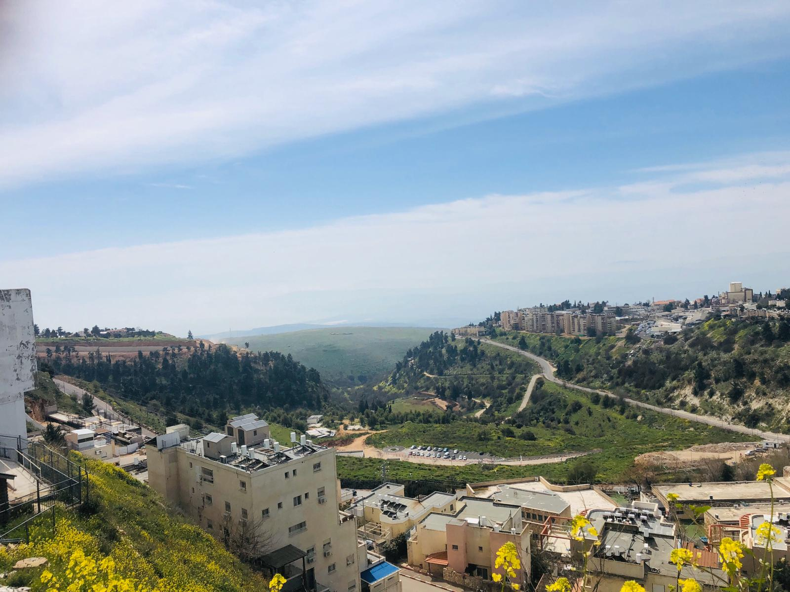 View of Wadi Akhbara and Southern Neighborhood of Safed from C'naan Neighborhood on Mt. C'naan, Israel